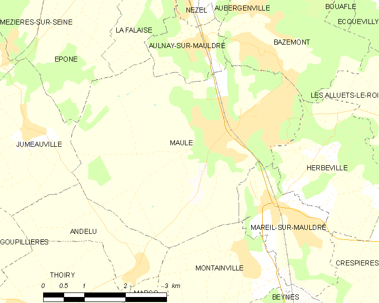 Map of French municipality Maule